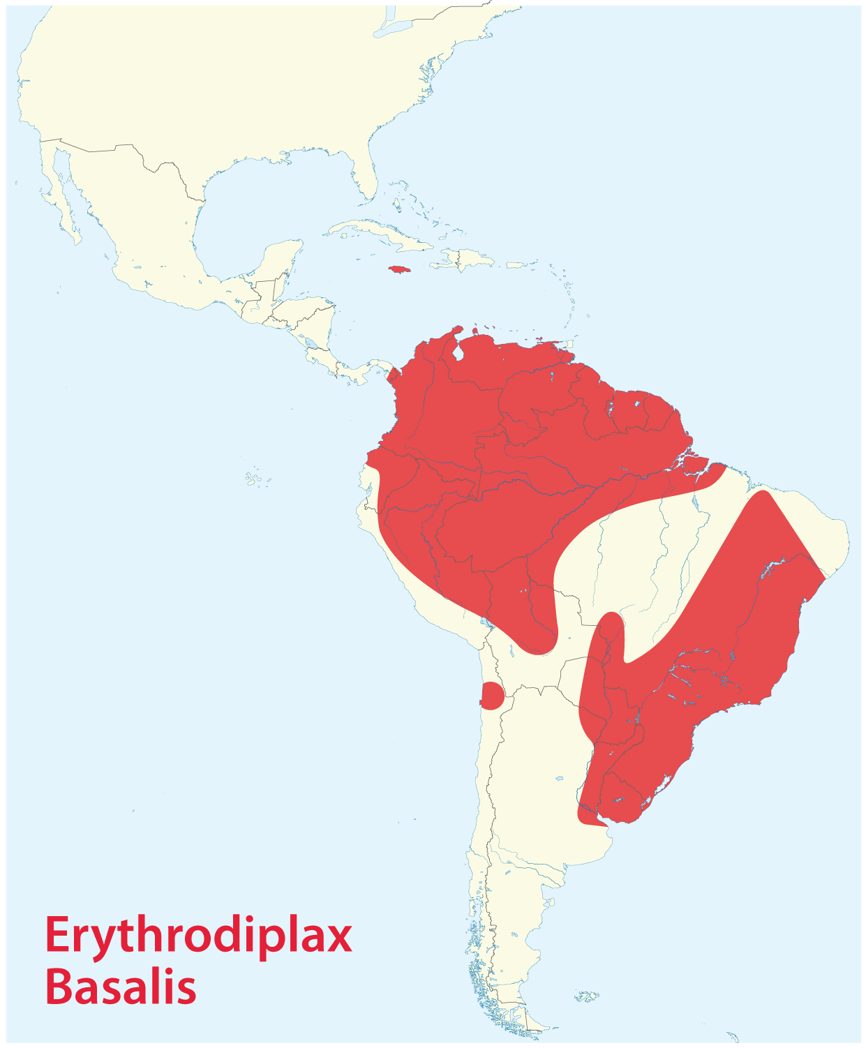 Distribution map of Erythrodiplax Basalis